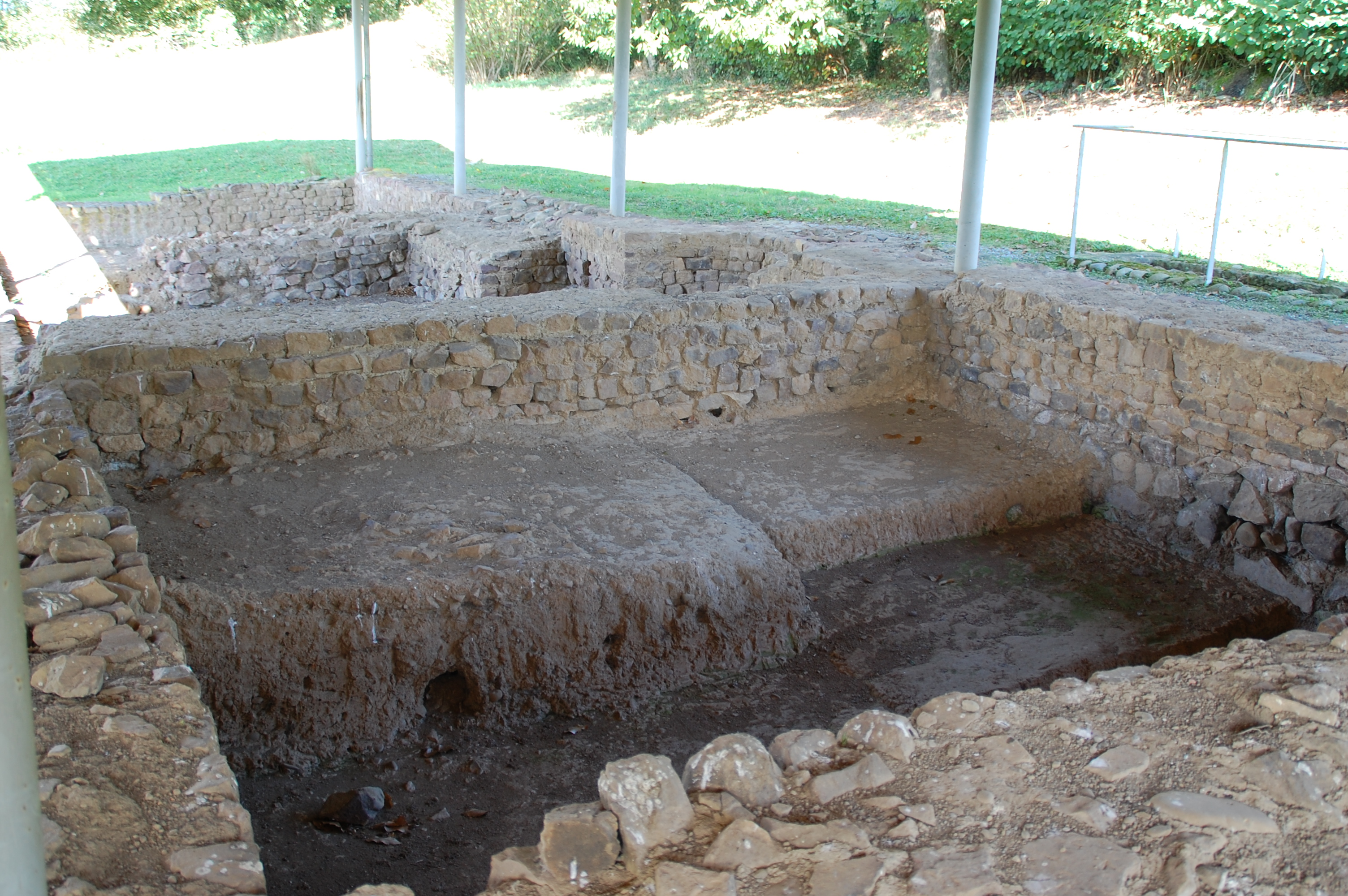 Camp romain